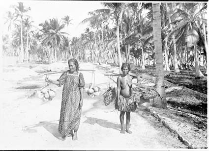 Two women in the main road of Nauru carrying food, one wear the traditional clothes, the other adopted the mother hubart dress